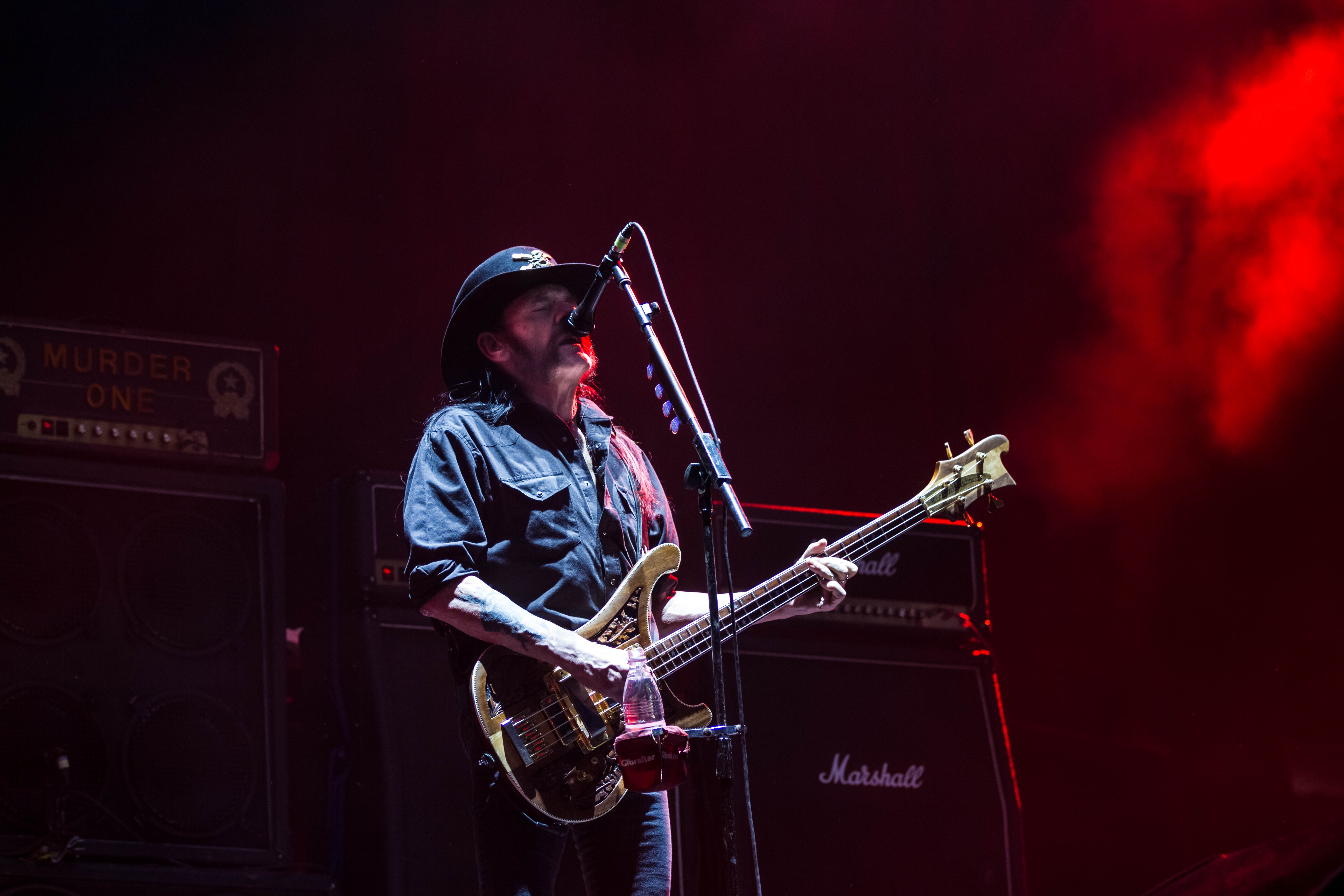 Motörhead - Rock am Ring 2015